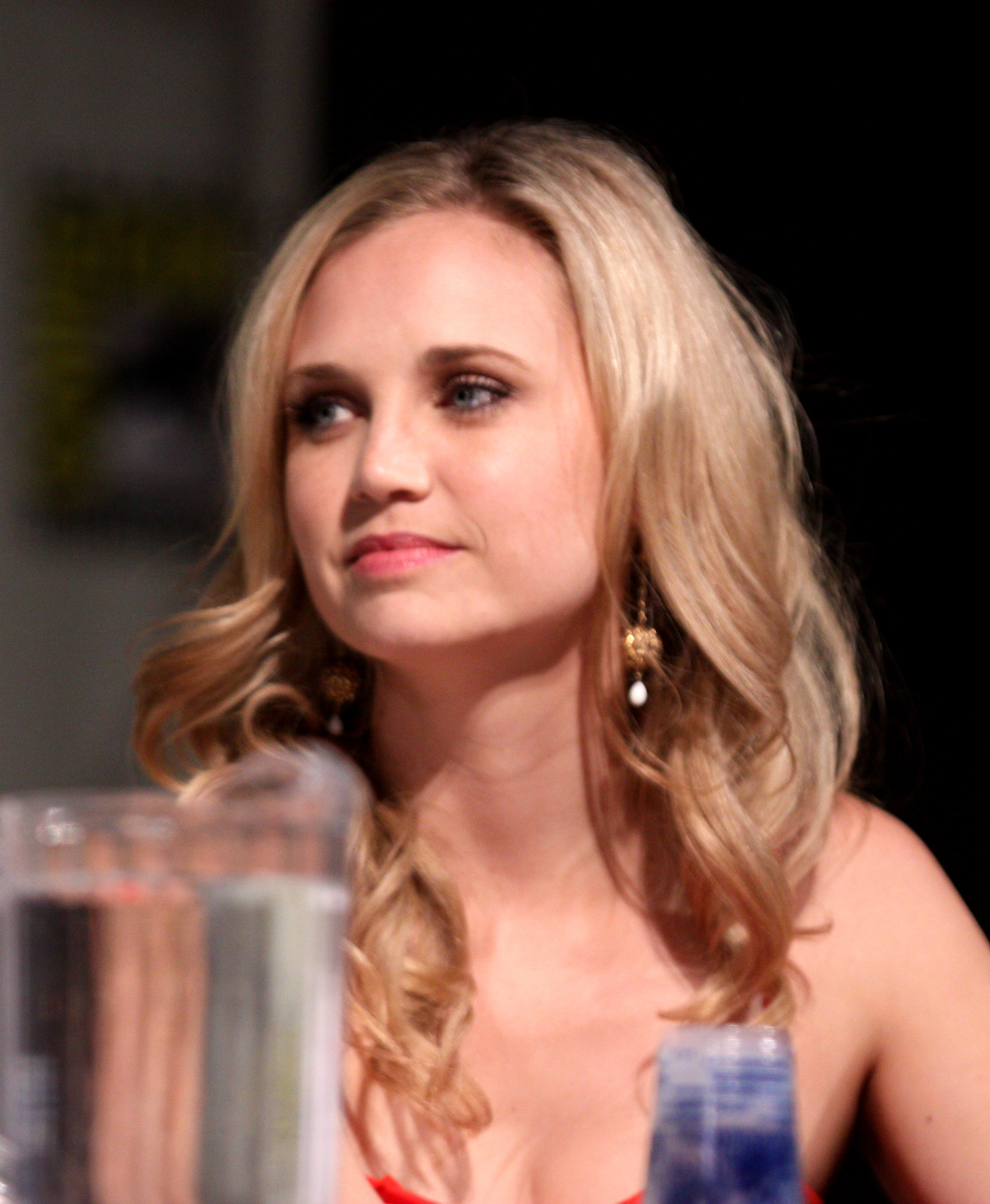 Fiona Gubelmann at the 2011 San Diego Comic-Con International in San Diego, California.